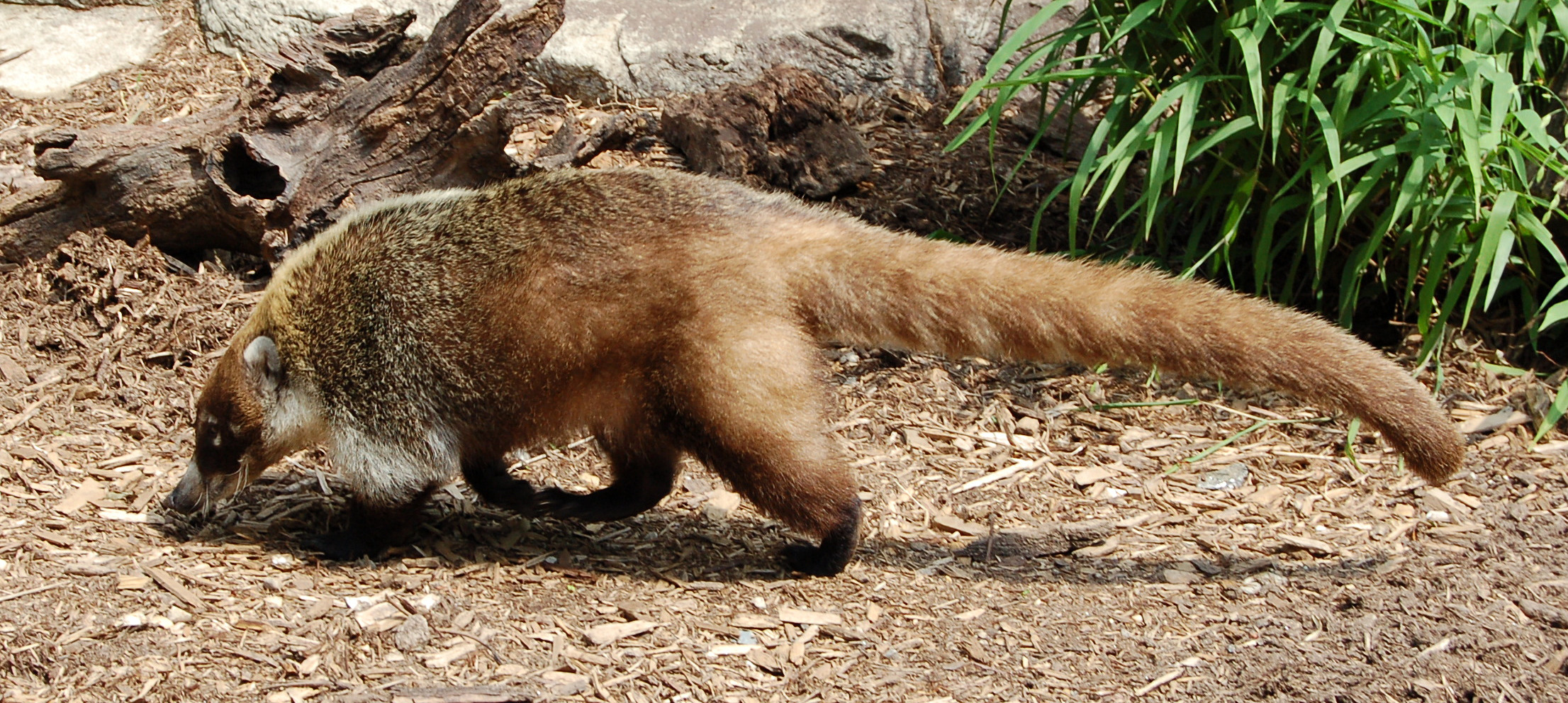 The side view of a White-nosed Coati (Nasua narica). Photo taken at and species identified by the Philadelphia Zoo.